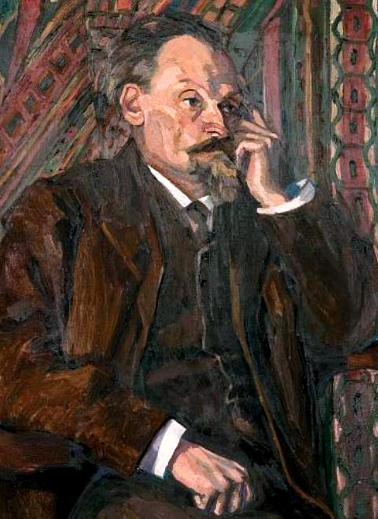 Portretul tatălui meu ("Portrait of My Father"). The anarchist scholar Zamfir C. Arbure (Arbore).